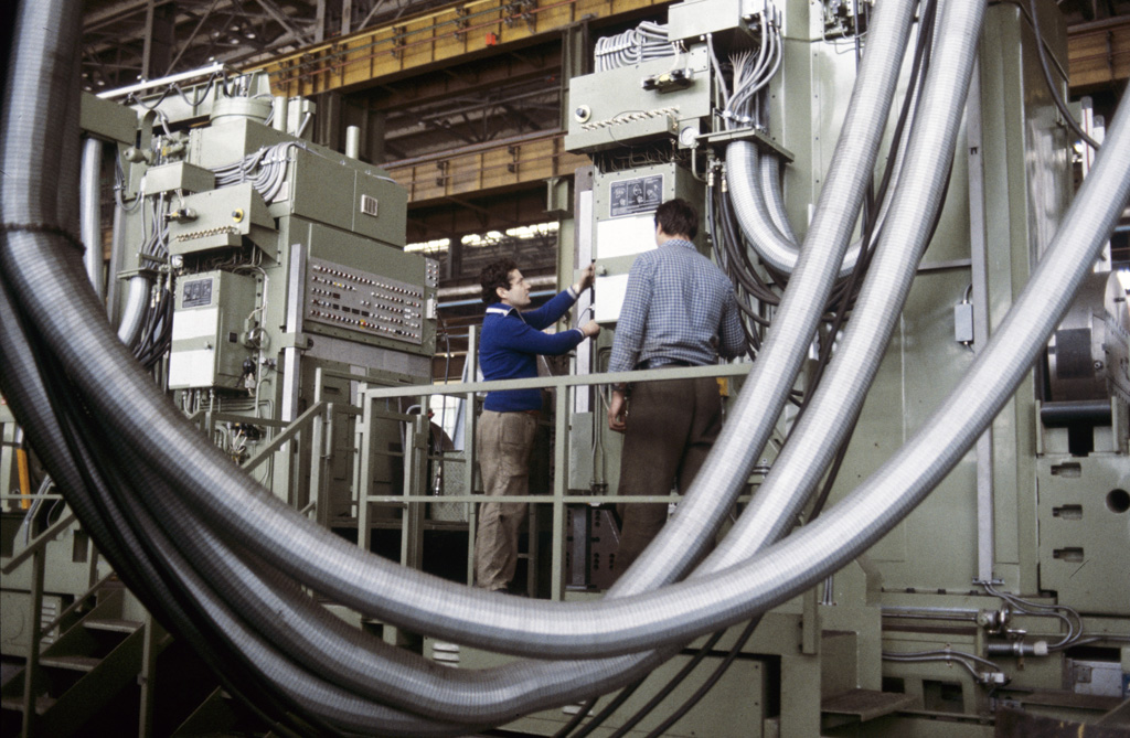 “Adjusting new equipment for nuclear power plant turbine building”. Adjusting new equipment for nuclear power plant turbine building. The Kirov "Kharkov Turbine Factory" production association for nuclear power plant turbine building.